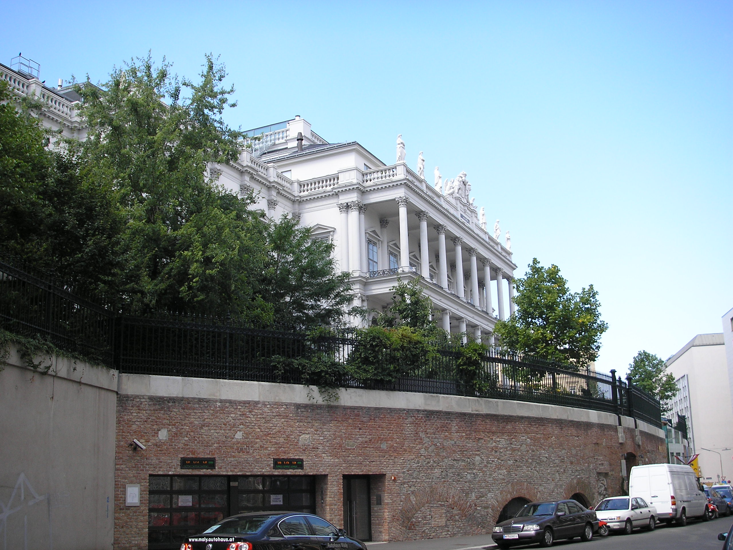 Palais Coburg, also known as Palais Sachsen-Coburg or Palais Saxe-Coburg. Built 1840-50 for Duke Ferdinand of Saxe-Coburg and Gotha on the Brown Bastion (Braunbastei), which itself dates from 1545-55.